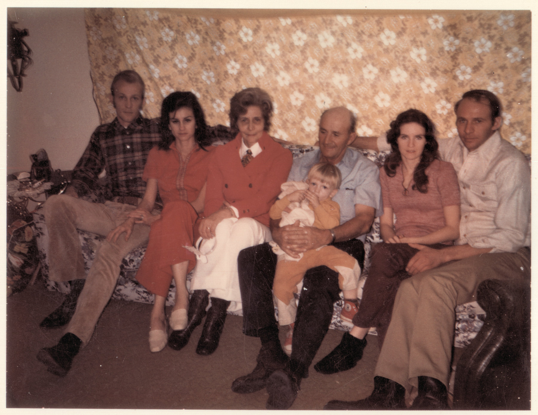 Family gathering